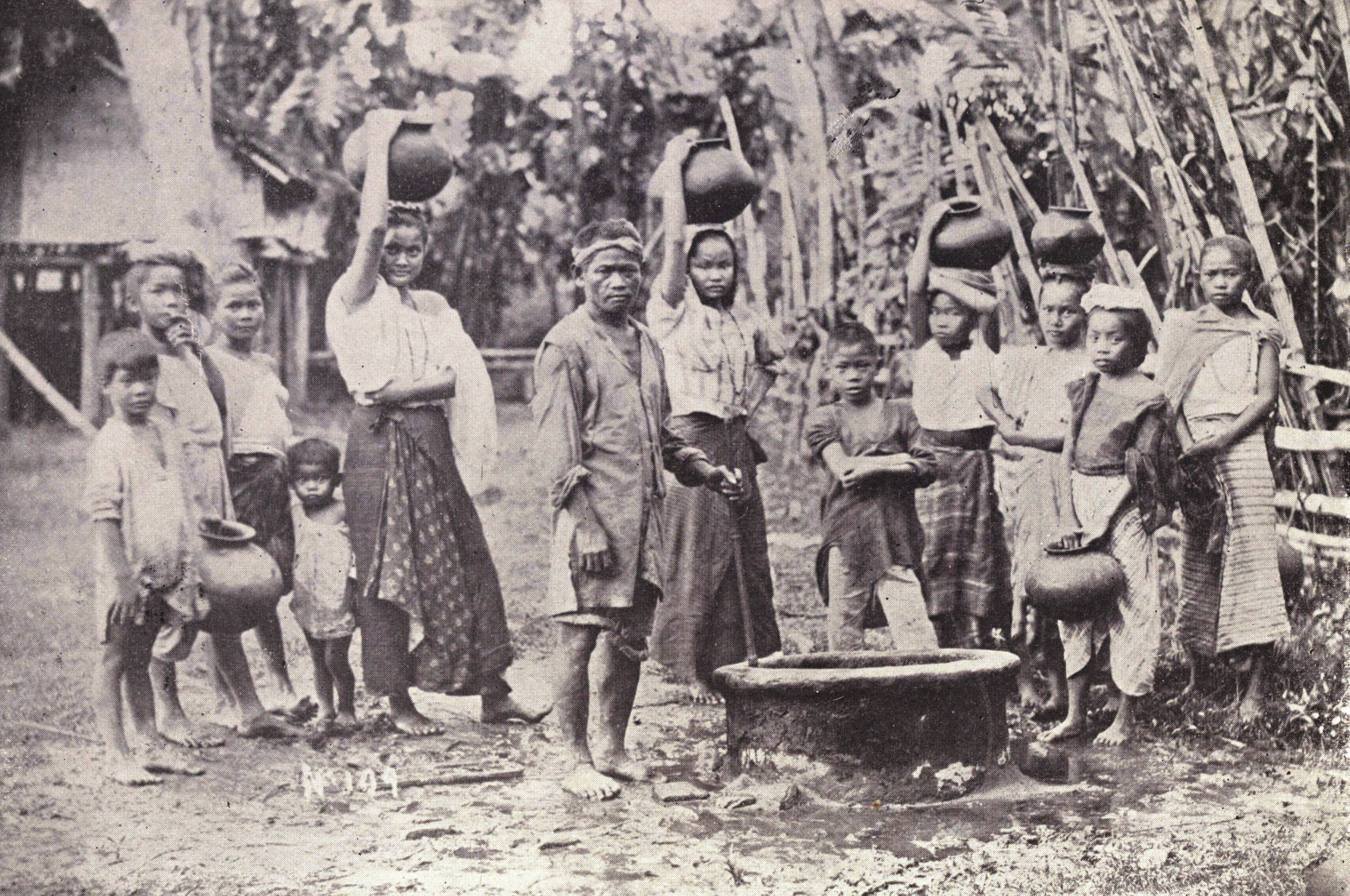 Original caption (cropped out): Native water carriers in Iloilo Description (cropped out): In the Philippine Islands, as in all other countries of the Orient, it is customary for the natives to carry their drinking water from public wells. More than three thousand years ago Moses met his future wife at the well. The servants of Abraham made the bargain with Rebecca to marry Isaac at the well. Christ met the woman of Samaria at Jacob's well. The women and the children of the East still keep up the ancient custom, in semi-savage as well as civilized lands.